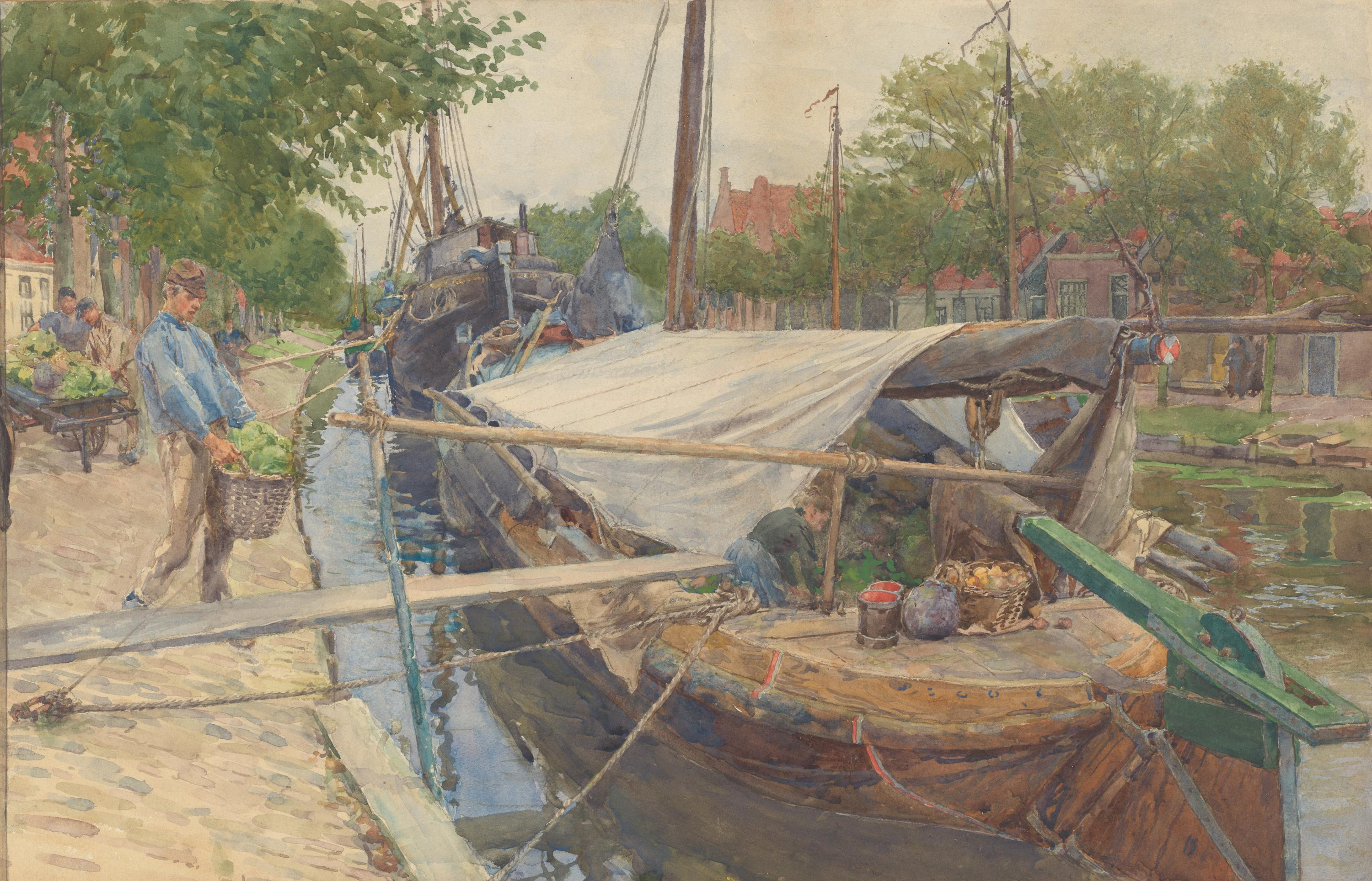 William Rainey, The Market boat, 2020, National Gallery of Victoria, Melbourne. Purchased, 1901. Image ID: Ff118733 Web